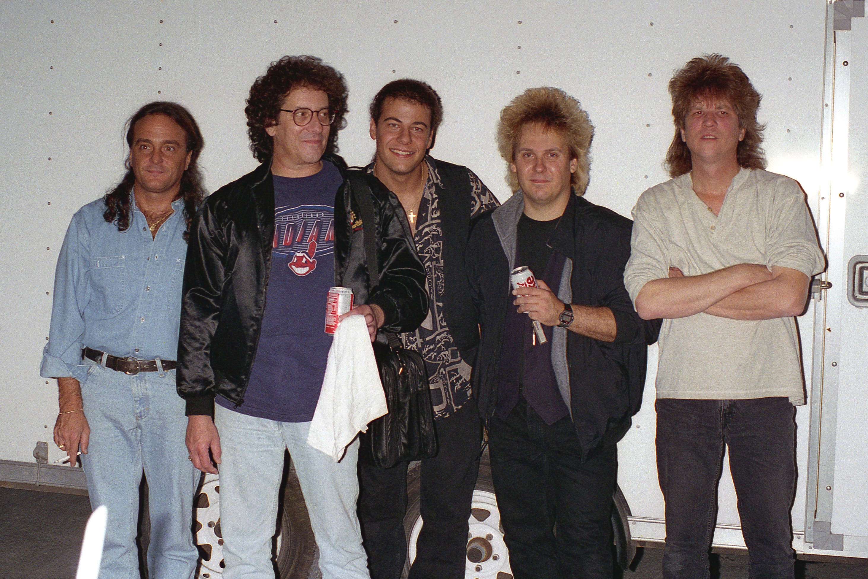 Gary Lewis and The Playboys photographed backstage by Kenneth Dwain Harrelson after a performance for the Enfield Mule Days festival, held on October 5th, 1996 in Enfield, Illinois. I used a Minolta XD11 SLR and Kodak Gold 100 film.